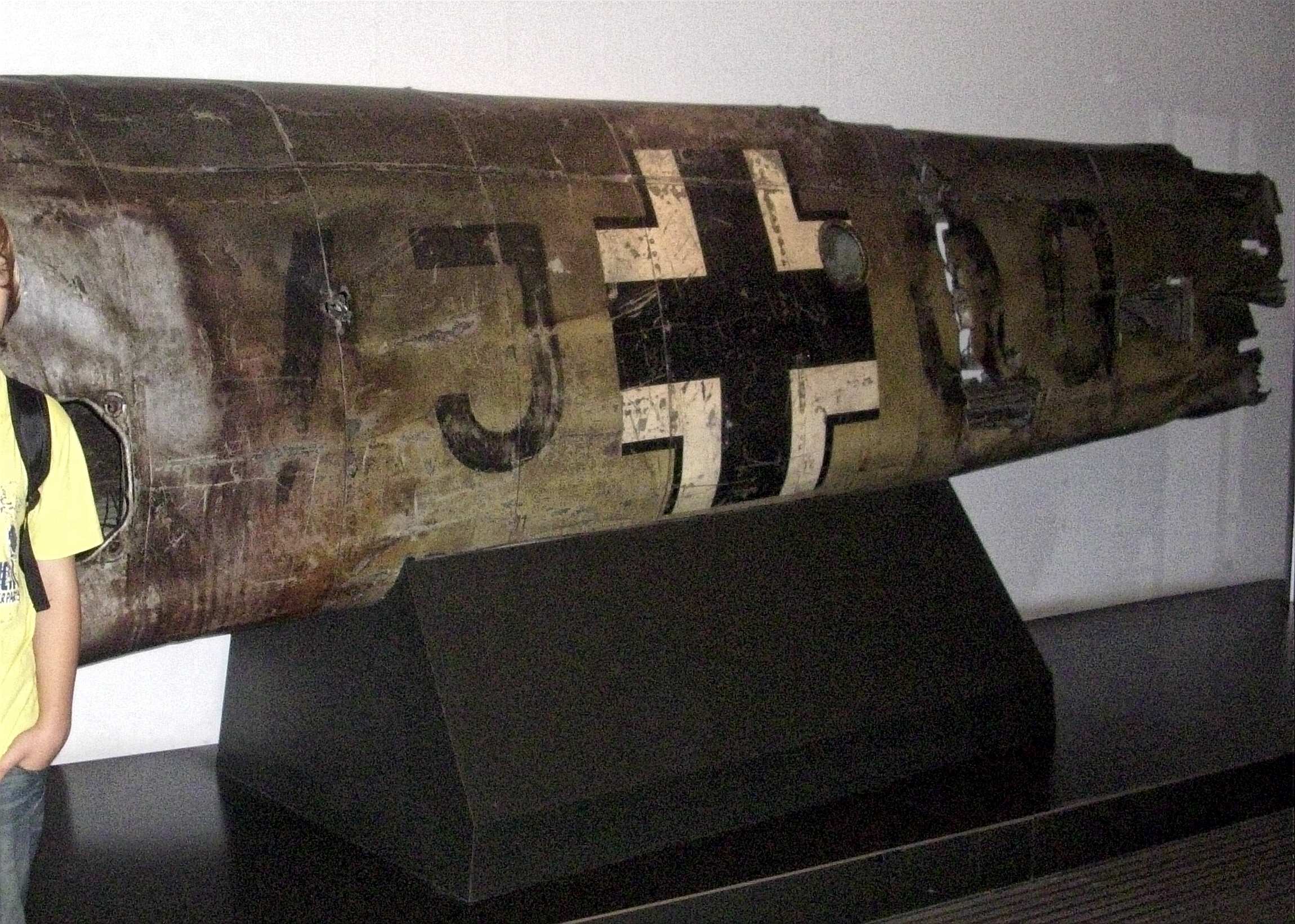 Part of the fuselage of Rudolf Heß's Messerschmitt Bf 110 at Imperial War Museum, London.